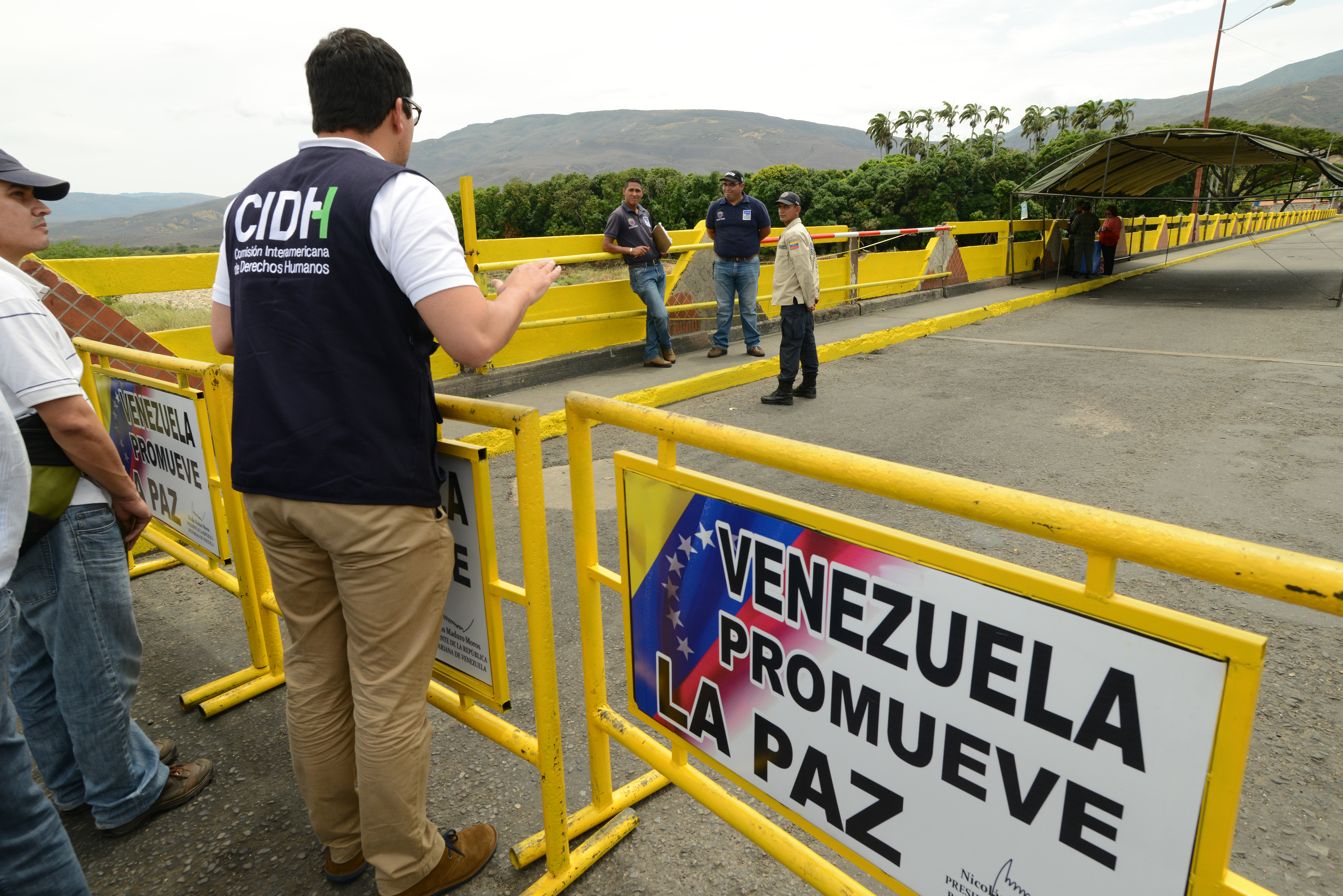 Members of the Inter-American Commission on Human Rights group go to the Simón Bolívar International Bridge.